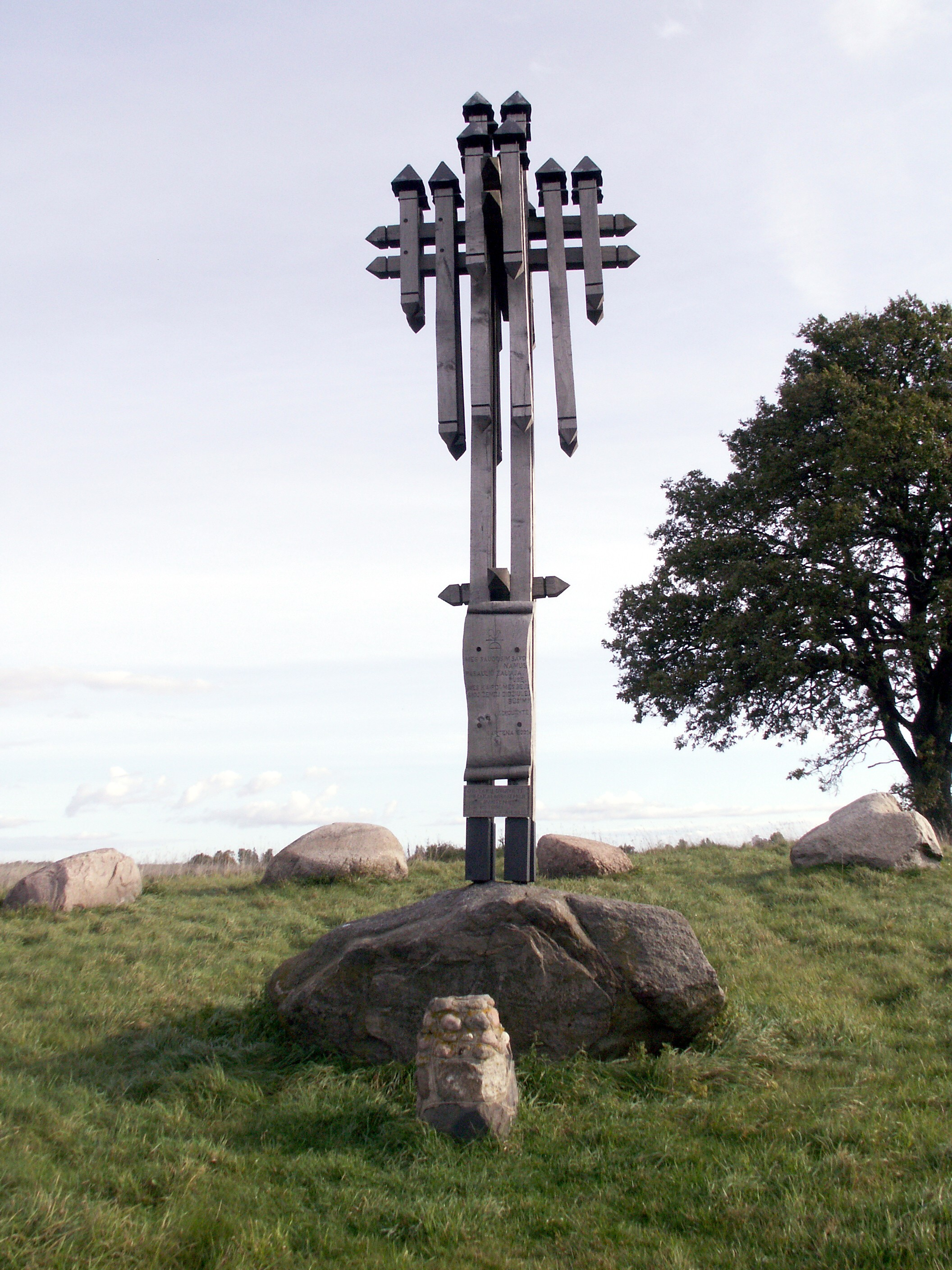 Hillfort Gintarai, Kretinga district, Lithuania